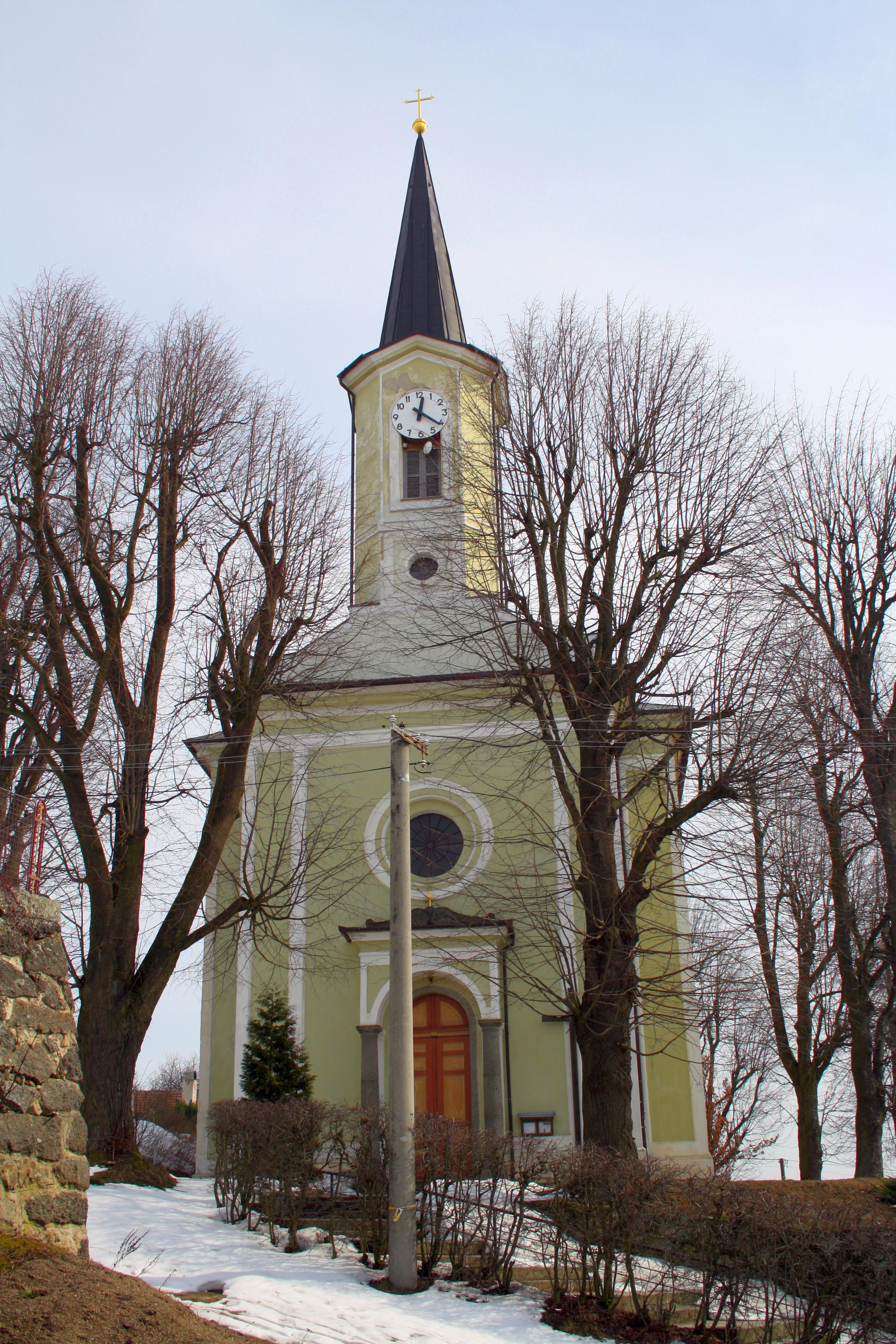 Saint Mark's church in Benetice overview.